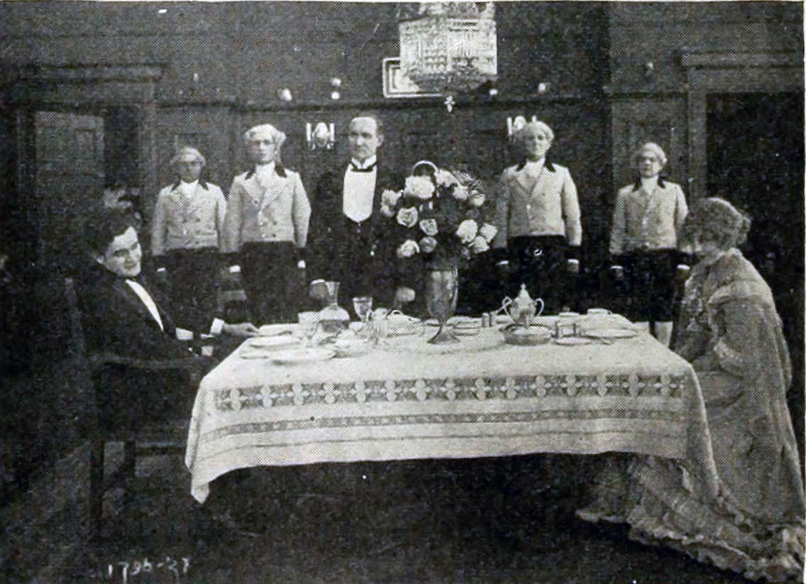 Illustration of a review in The moving Picture World for the American film The Grasp of Greed (1916).